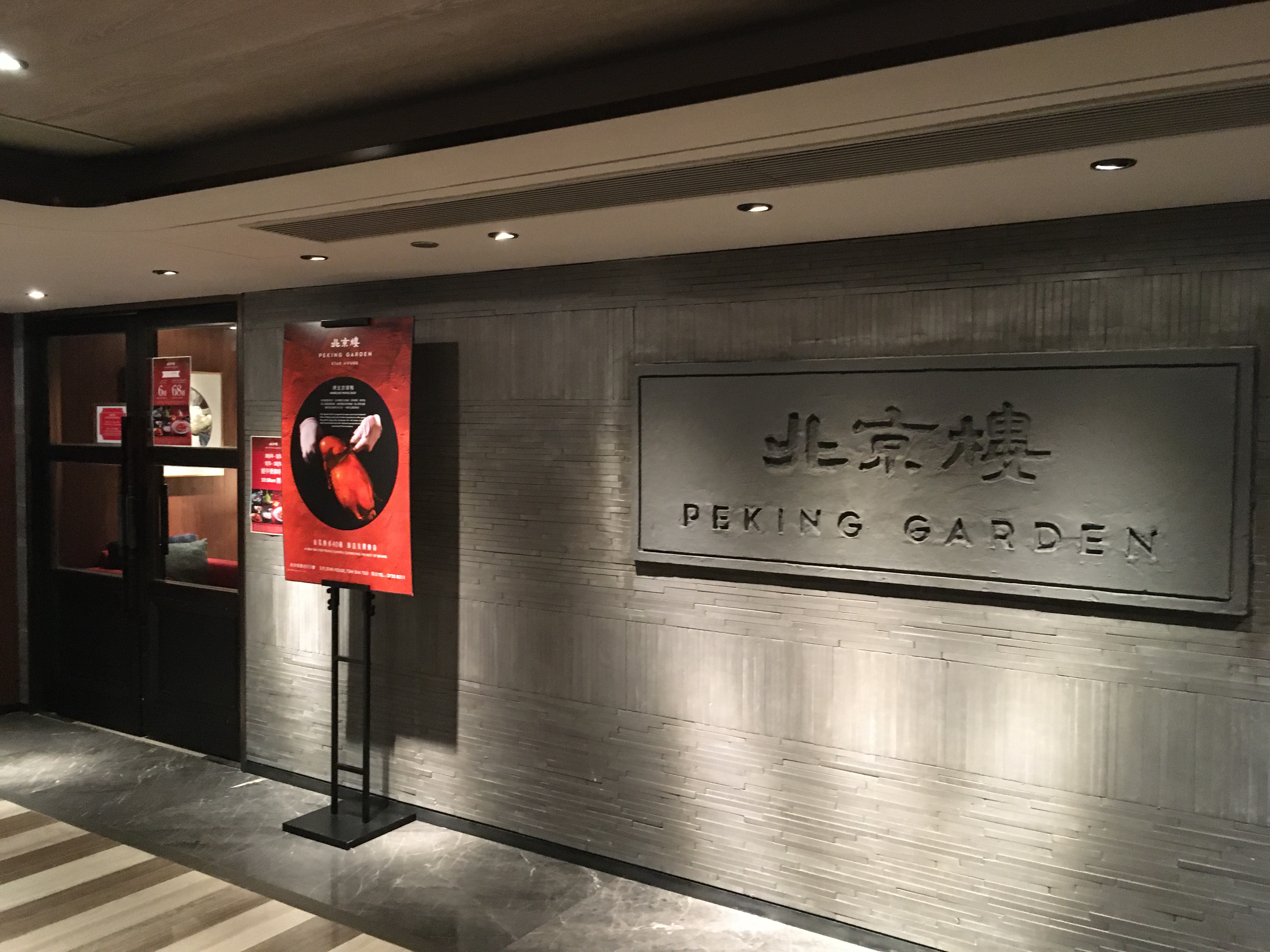 Peking Garden restaurant at Star House